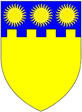 Augmented arms of Smithson Baronets of Stanwick: Or, on a chief embattled azure three suns proper (Collins, Arthur, The English Baronetage, vol.3, part 1)